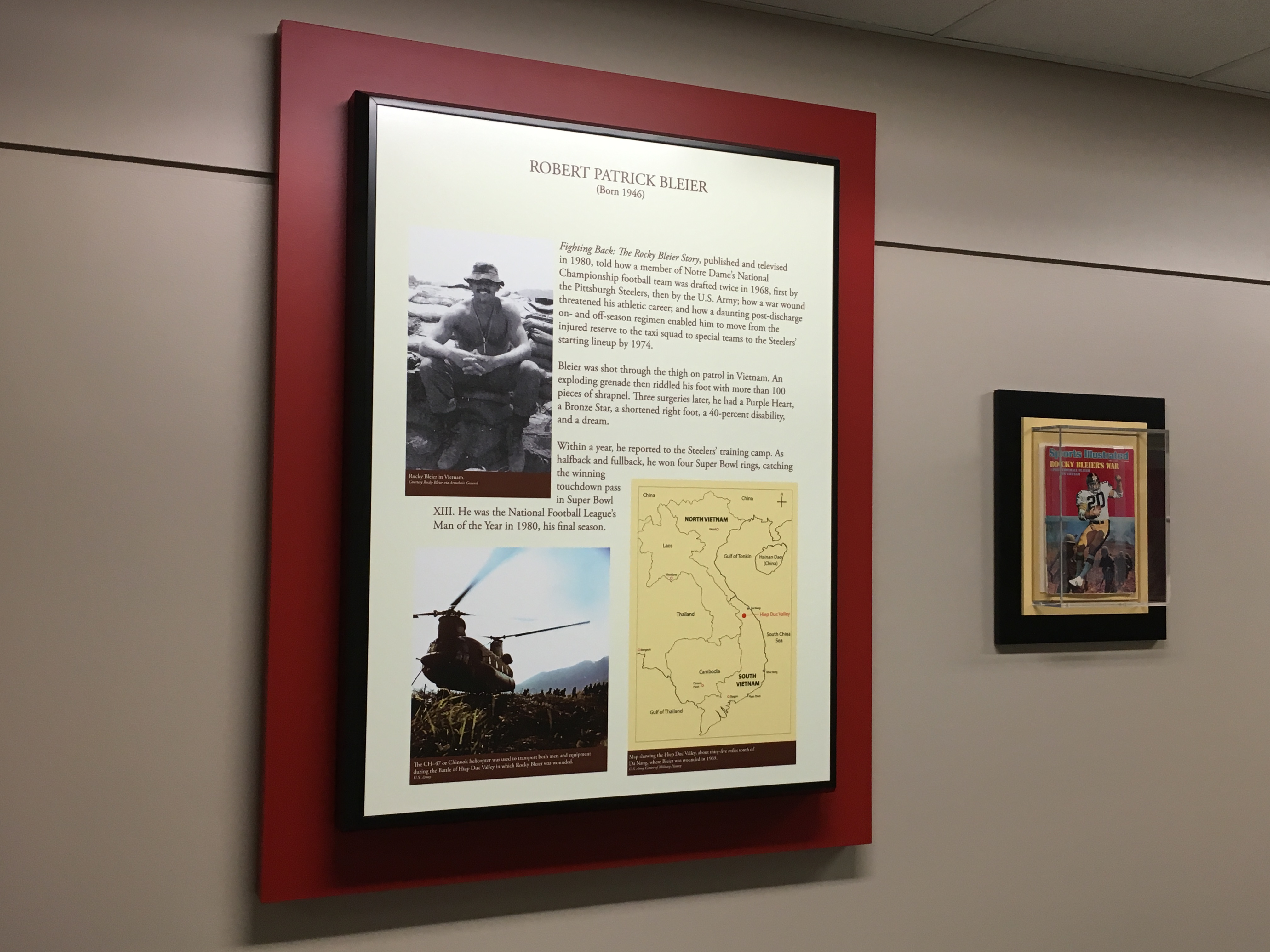 Plaques in the Pentagon's Wounded Warrior corridor commemorating Rocky Bleier's military service